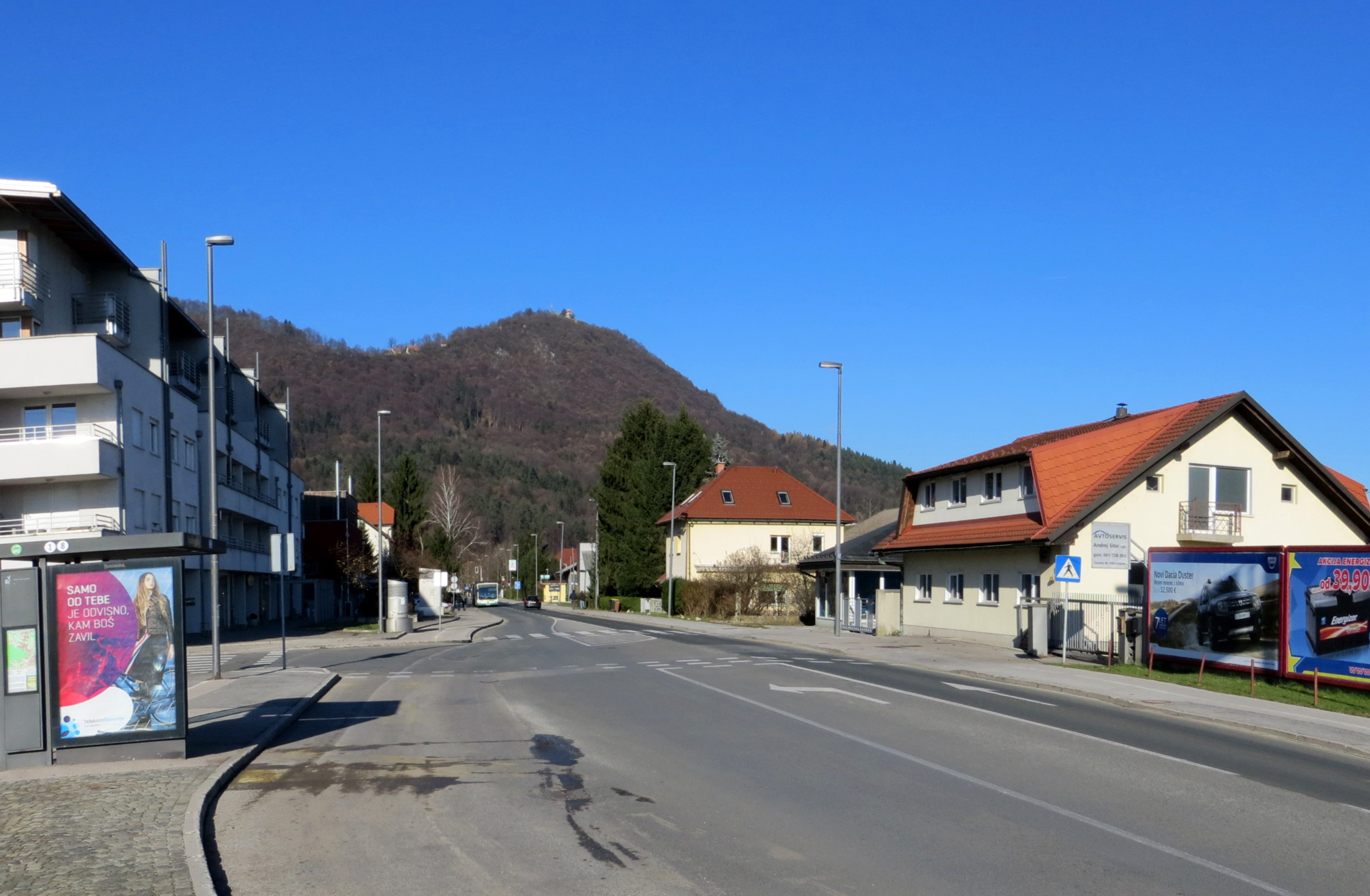 Former village of Brod, Šentvid District, Ljubljana Urban Municipality, Slovenia